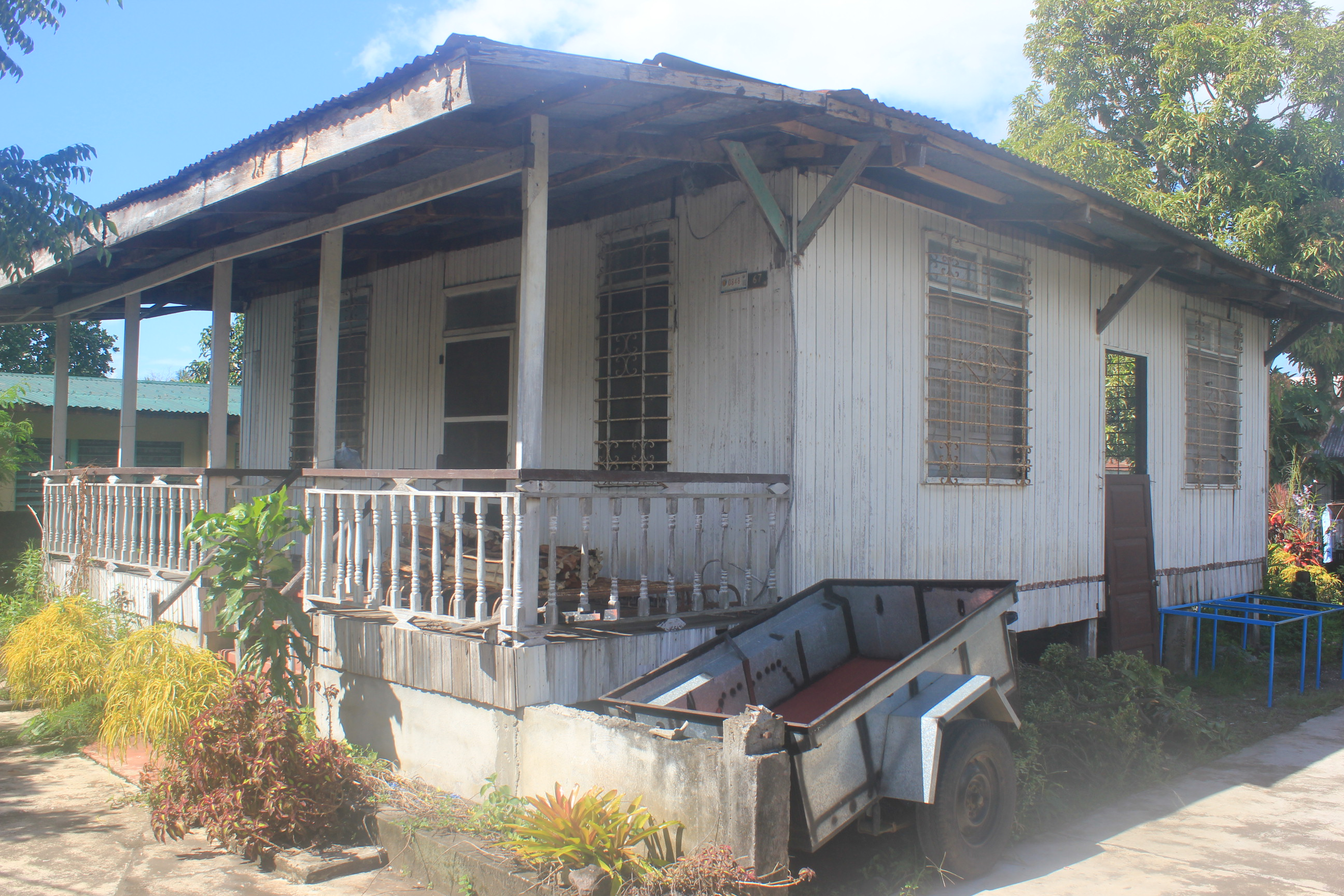 Veteran actor Jaime Francisco Garcia Fabregas ancestral house located at San Nicolas, Iriga City.